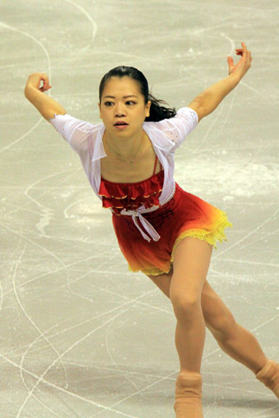 Akiko Suzuki at the 2009 Skate Canada International.